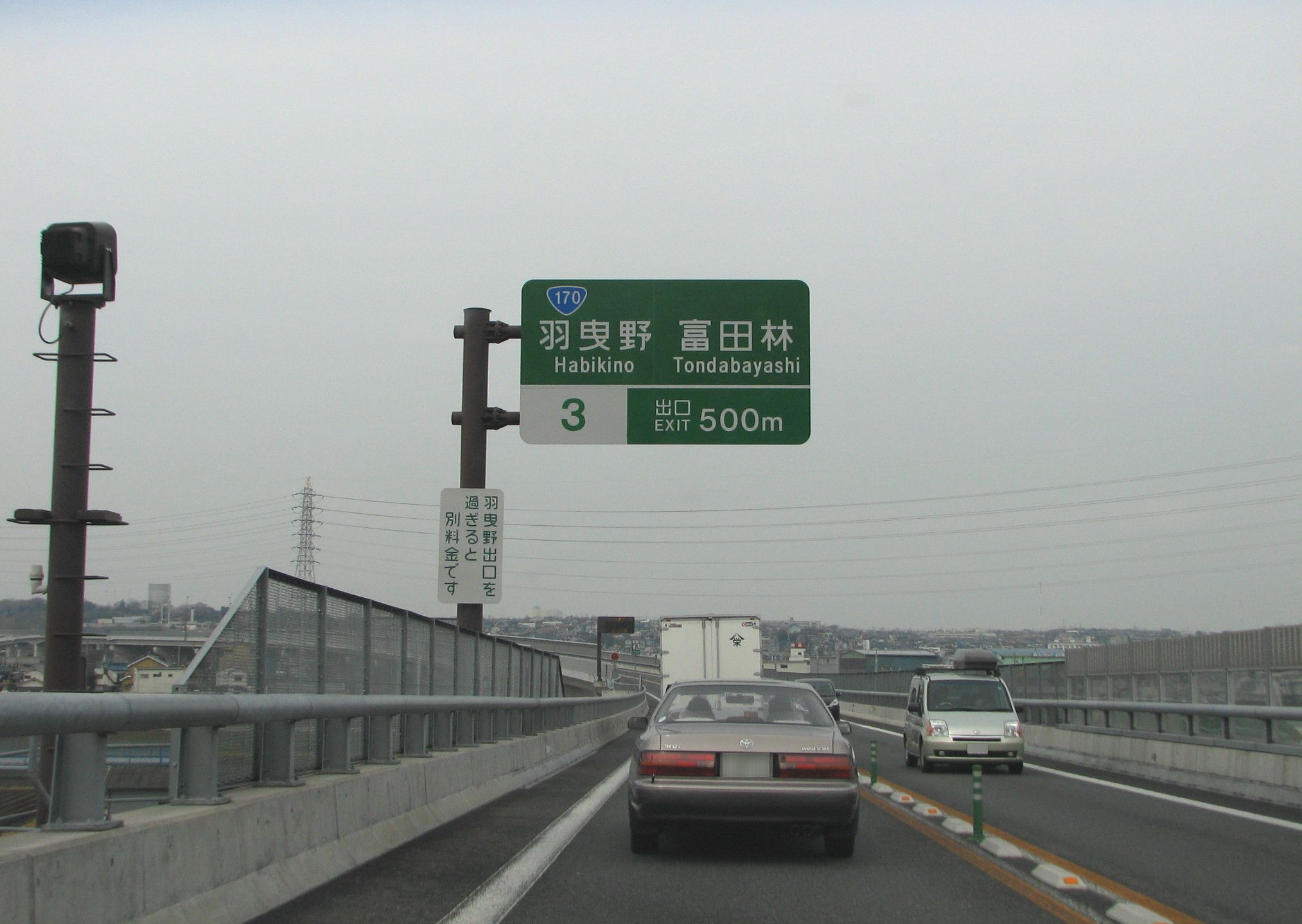 Habikino IC